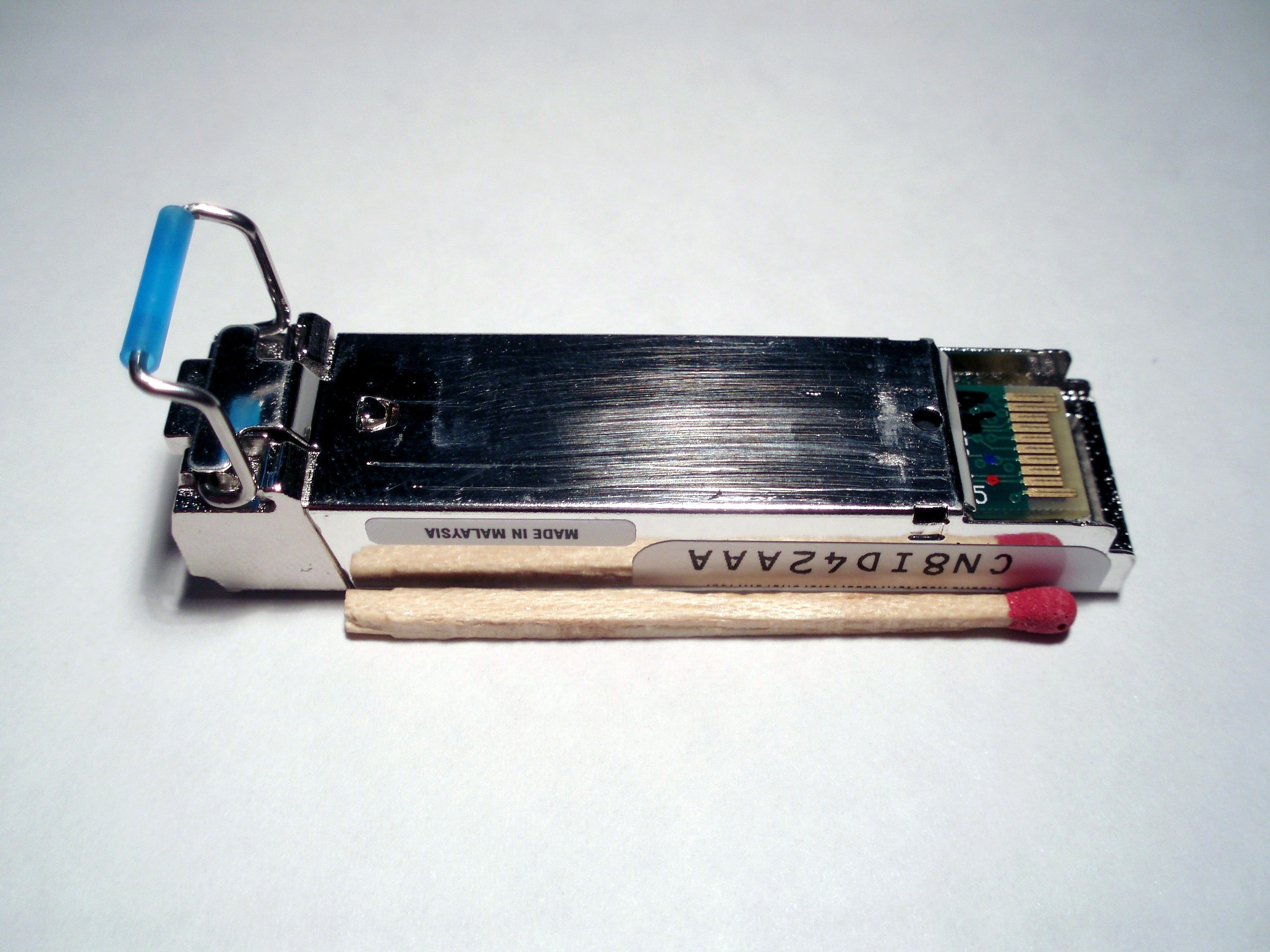 Side view of SFP module with matchstick for size reference.